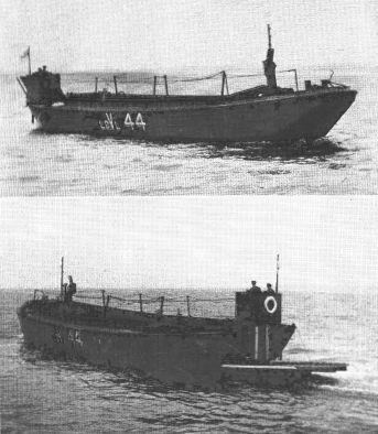 Landing Barge, Vehicle, LBV. barges converted to transport and embark vehicles in the initial stage of the landing on D-Day.